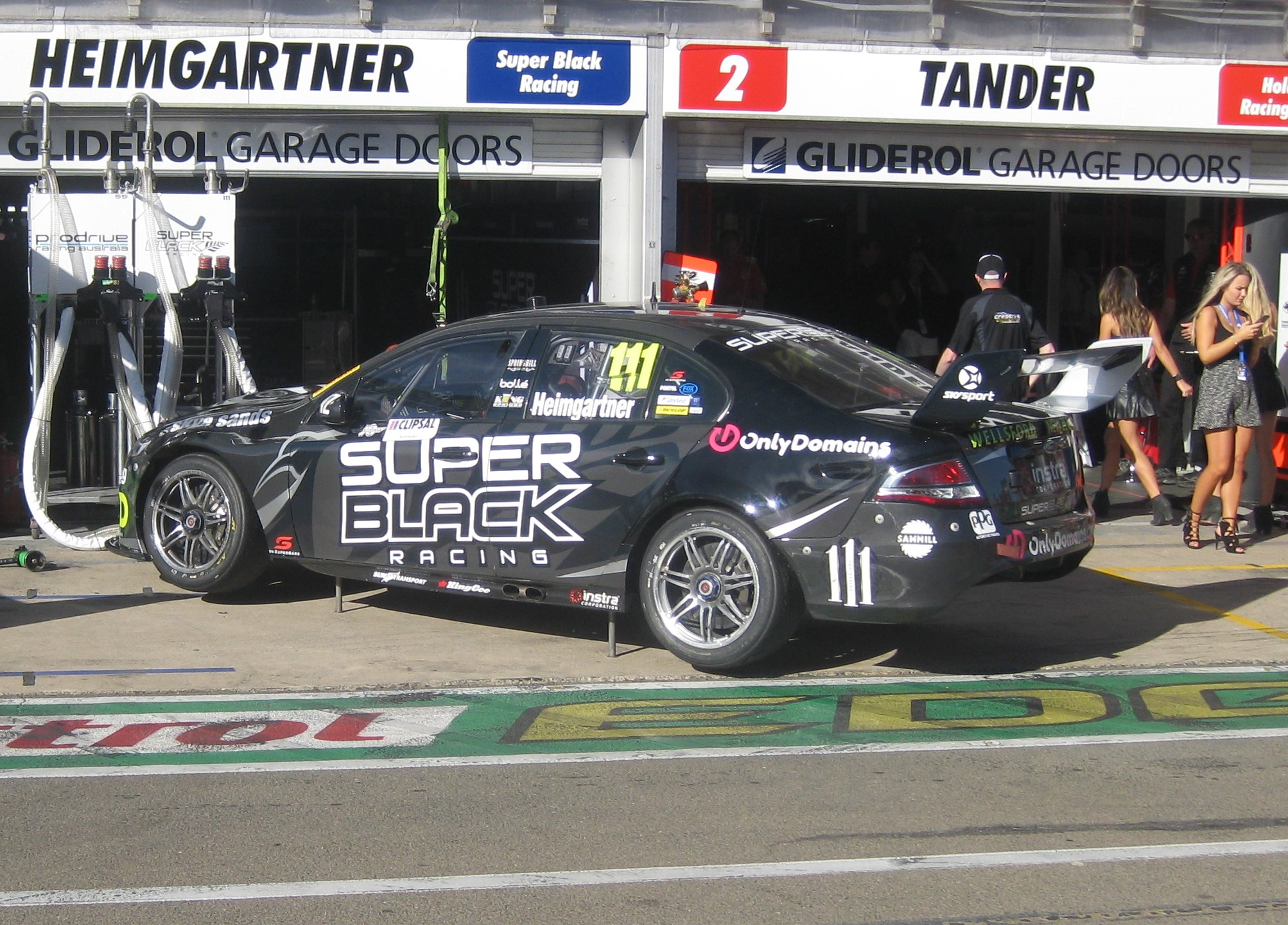 The Ford Falcon (FG) of Andre Heimgartner at the 2015 Clipsal 500 Adelaide